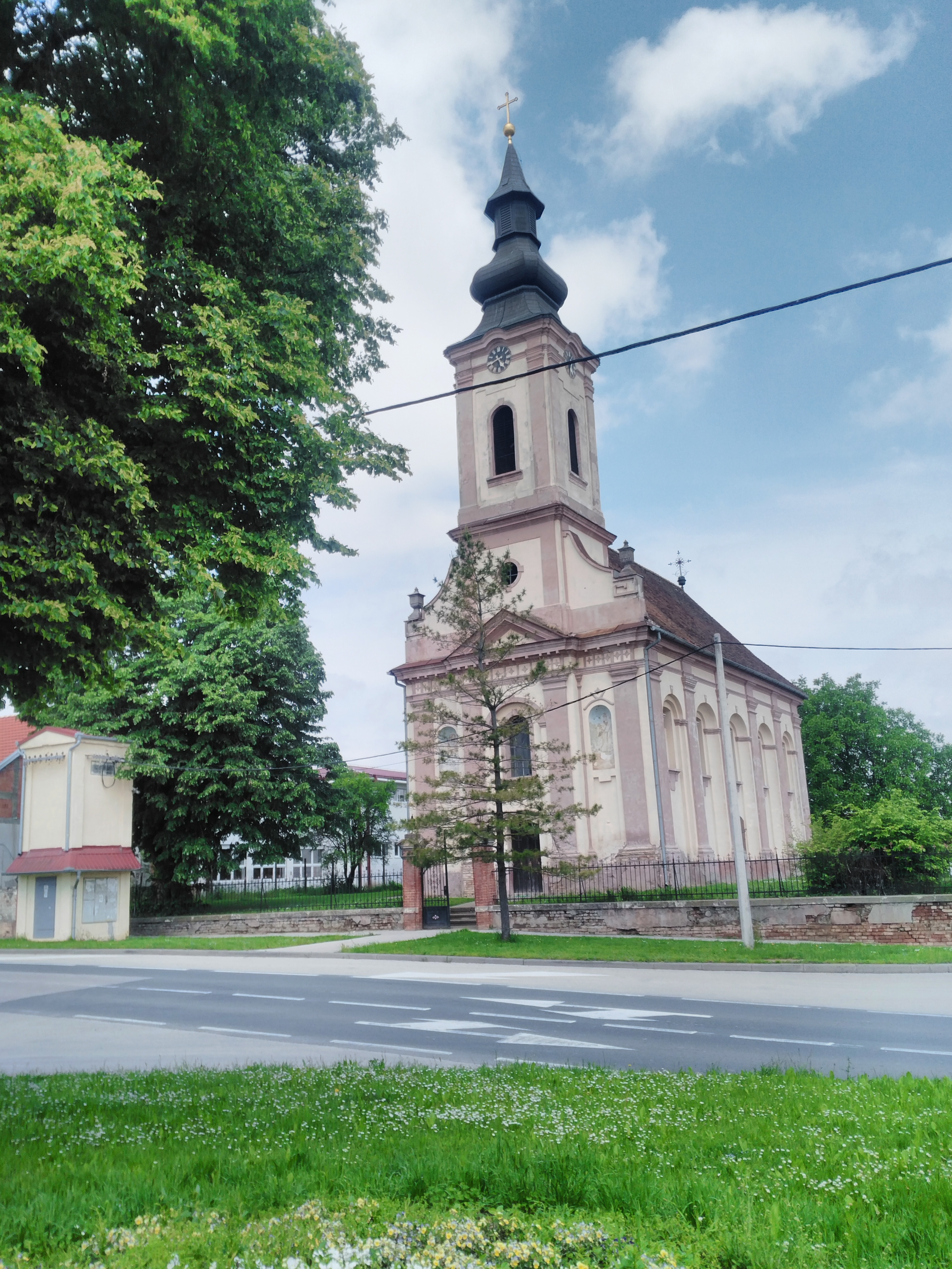 Saint Nicolas Serbian Orthodox Church in Mirkovci